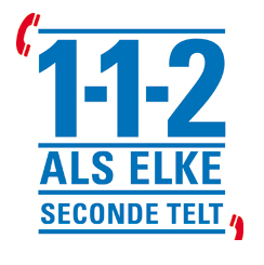 Dutch logo of the european 1-1-2 emergency telephone number